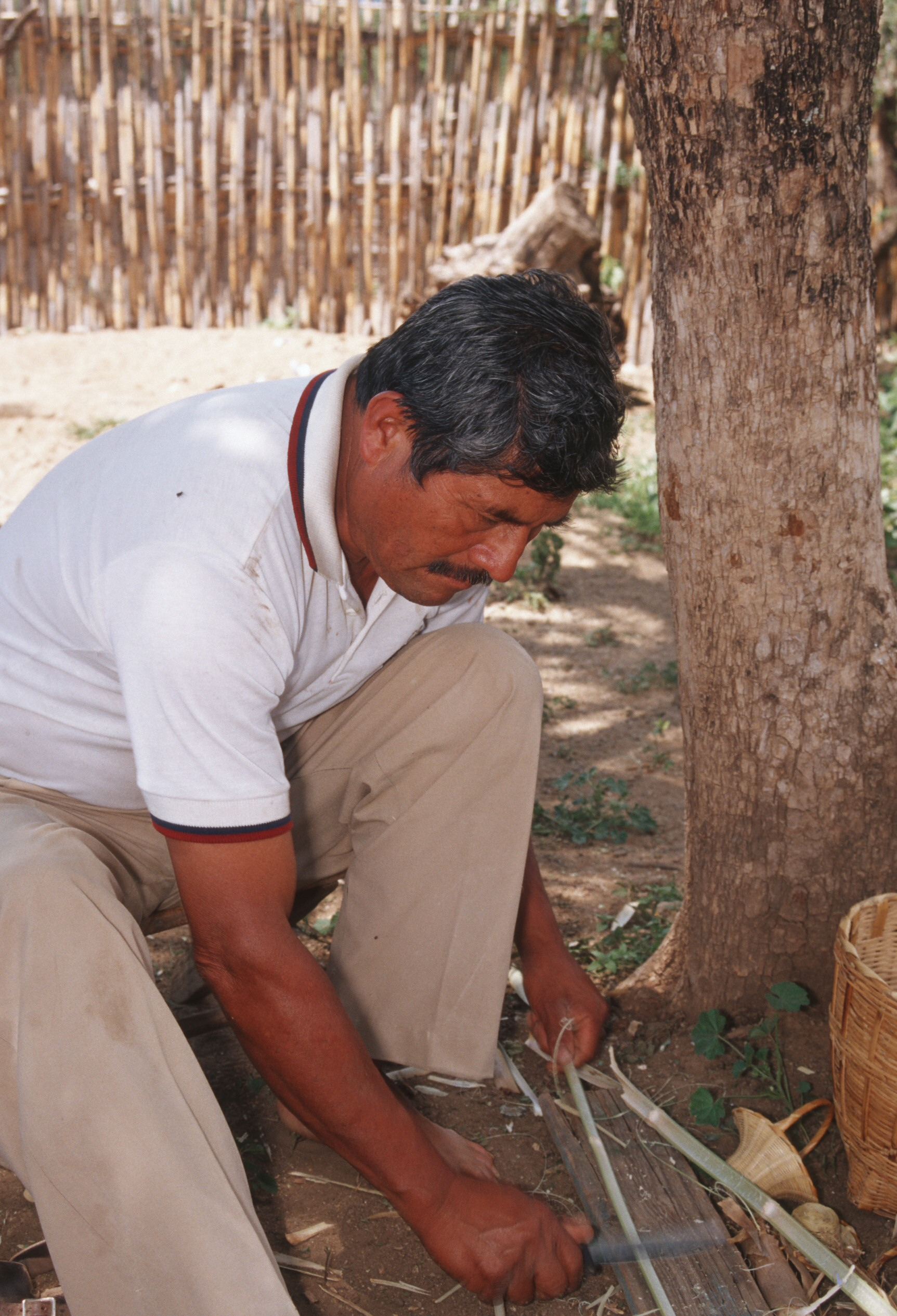 Basket maker Armador Martinez Antonio of Oaxaca, Mexico